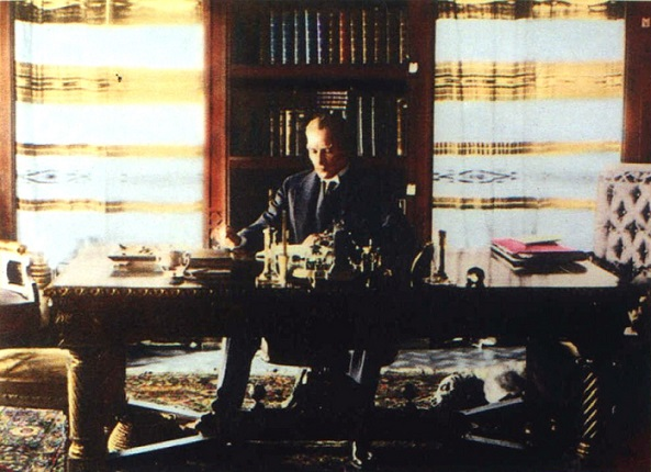 Atatürk at the library of Çankaya Köşkü Presidential Residence on July 16, 1929. His dog Foks can be seen lying on the floor, under the table. Kemal Atatürk (or alternatively written as Kamâl Atatürk, Mustafa Kemal Pasha until 1934, commonly referred to as Mustafa Kemal Atatürk; 1881 – 10 November 1938) was a Turkish field marshal, revolutionary statesman, author, and the founding father of the Republic of Turkey, serving as its first President from 1923 until his death in 1938. He undertook sweeping progressive reforms, which modernized Turkey into a secular, industrial nation. Ideologically a secularist and nationalist, his policies and theories became known as Kemalism. Due to his military and political accomplishments, Atatürk is regarded as one of the most important political leaders of the 20th century.